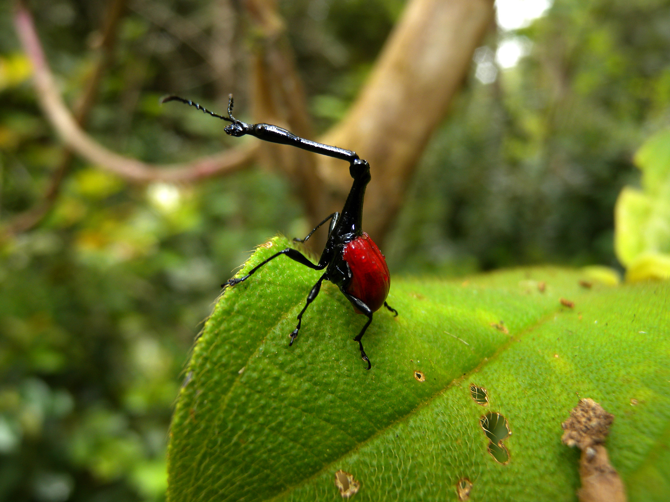 Giraffe-necked weevils (Trachelophorus giraffae) are almost invariably found on the leaves of Dichaetanthera cordifolia, on which they feed. The male's long 'neck' is adapted for rolling a leaf to make an egg case in which the female (which has a shorter neck) lays a single egg.